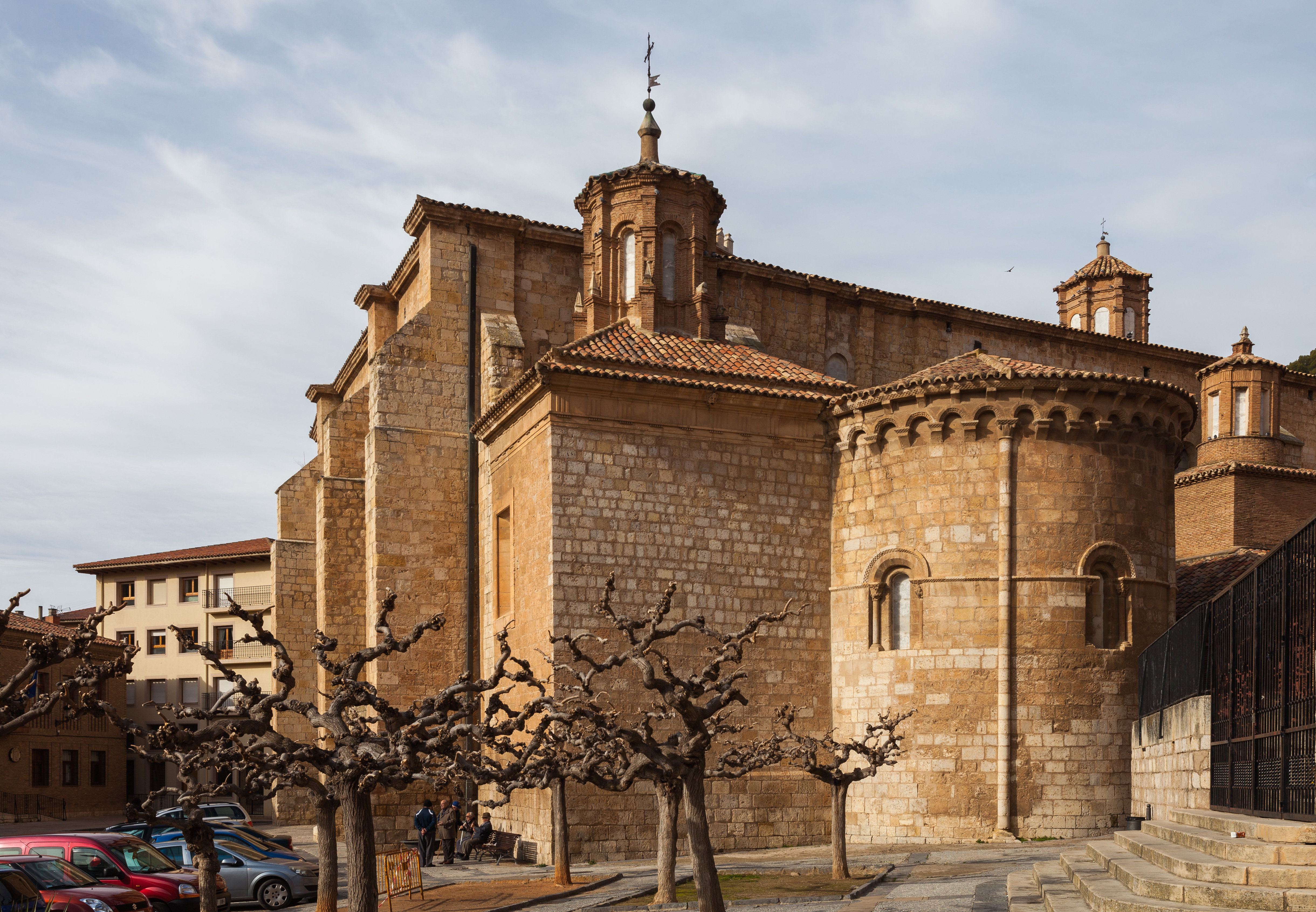 Colegiate of Santa Maria de los Sagrados Corporales, Daroca, Zaragoza, Spain